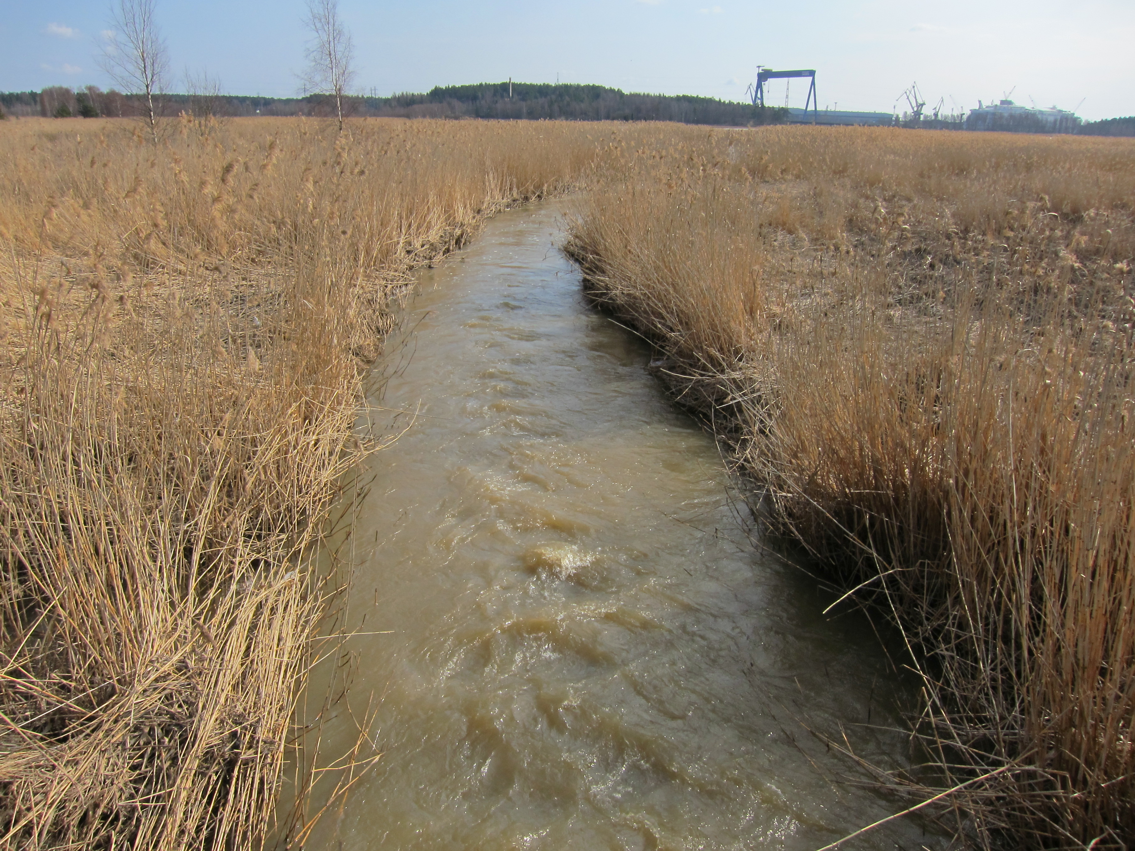 Piuhanjoki is a small river in Finland Proper. Its origins are in Masku, and it flows through Raisio to the Archipelago Sea.